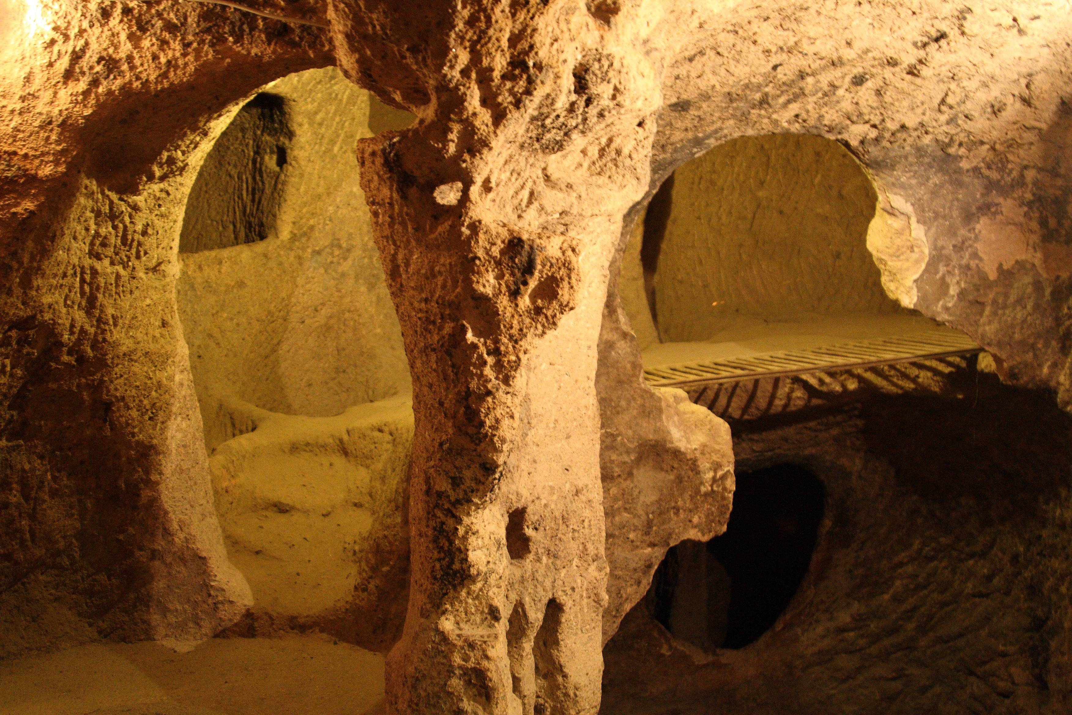 Cappadocia is one of the prettiest areas of Turkey - rich in scenery and in history. About 1600 years ago, Christians fled the Romans and then Muslims and hid in this area - often in underground cities - absolutely fascinating. The natural scenery is also unique - laced with volcanos and looking like the surface of the moon. The rock formations are called Fairy Chimneys - very impressive. I took these photos in October 2008.